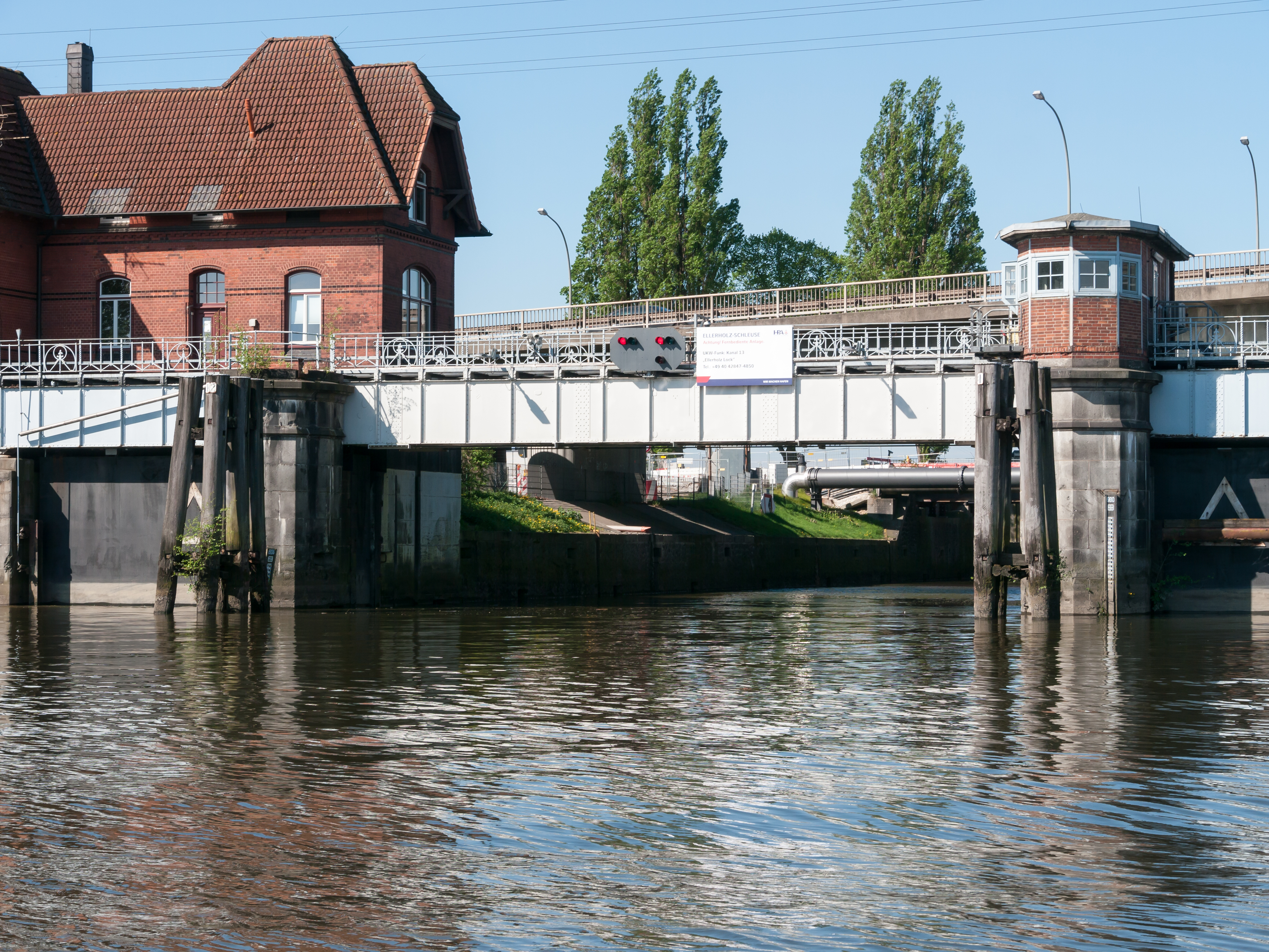 Wikipedia Ahoi in Hamburg 2019